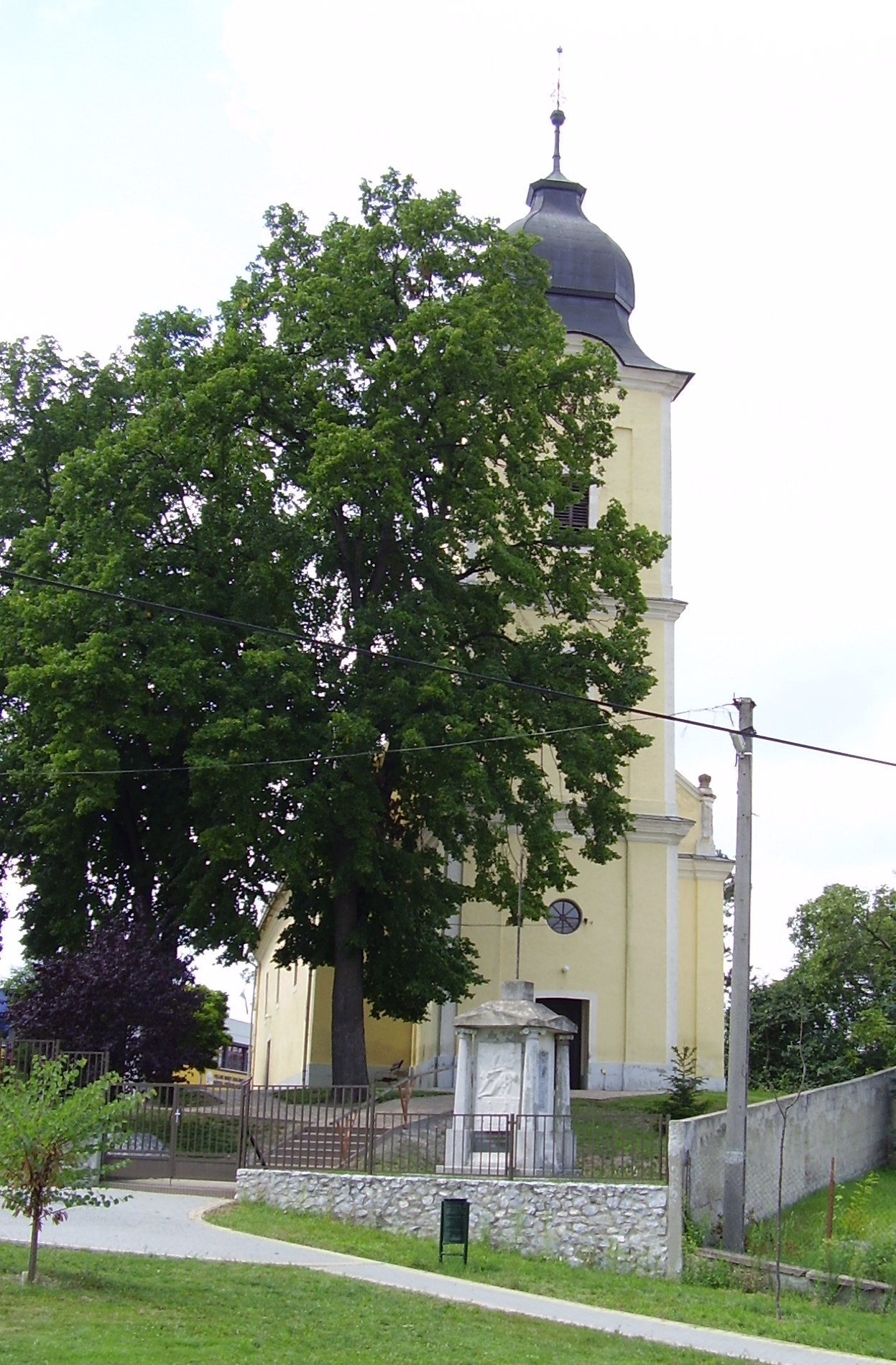 Reformed church and monument of heroes in Sajókazinc (Kazincbarcika, Dózsa György street 37.)